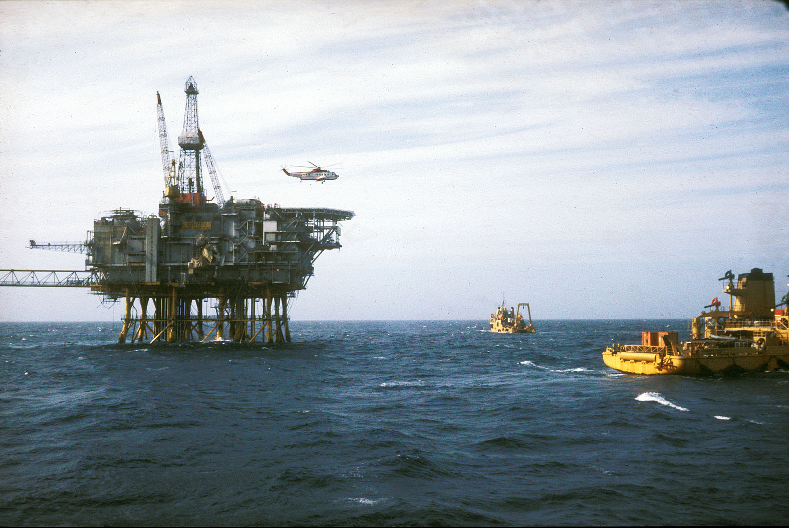 Edda 2/7C and rescue boats after capsizing of Alexander L. Kielland